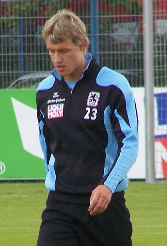 Benny Schwarz, 1860 Munich, training